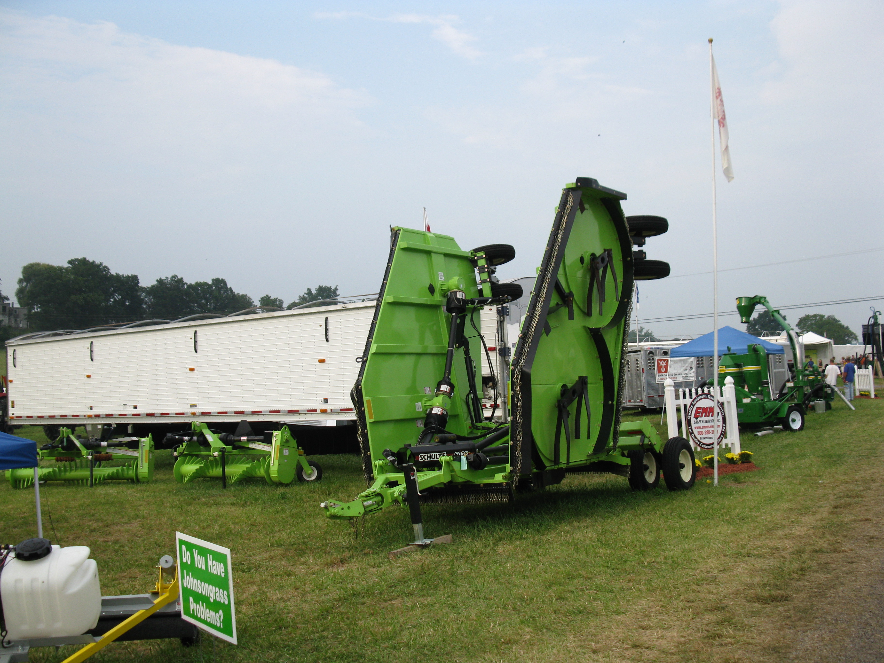 A Schulte rotary cutter 5026 at Ag Progress Days (APD) 2009 in Pennsylvania, USA. This rotary mower has a cutting width of nearly 8 meters. Two Schulte "rock windrowers", tools for rock removal from fields, are placed in front of a large white trailer on the left. Schulte Industries is a Canadian machine manufacturer.